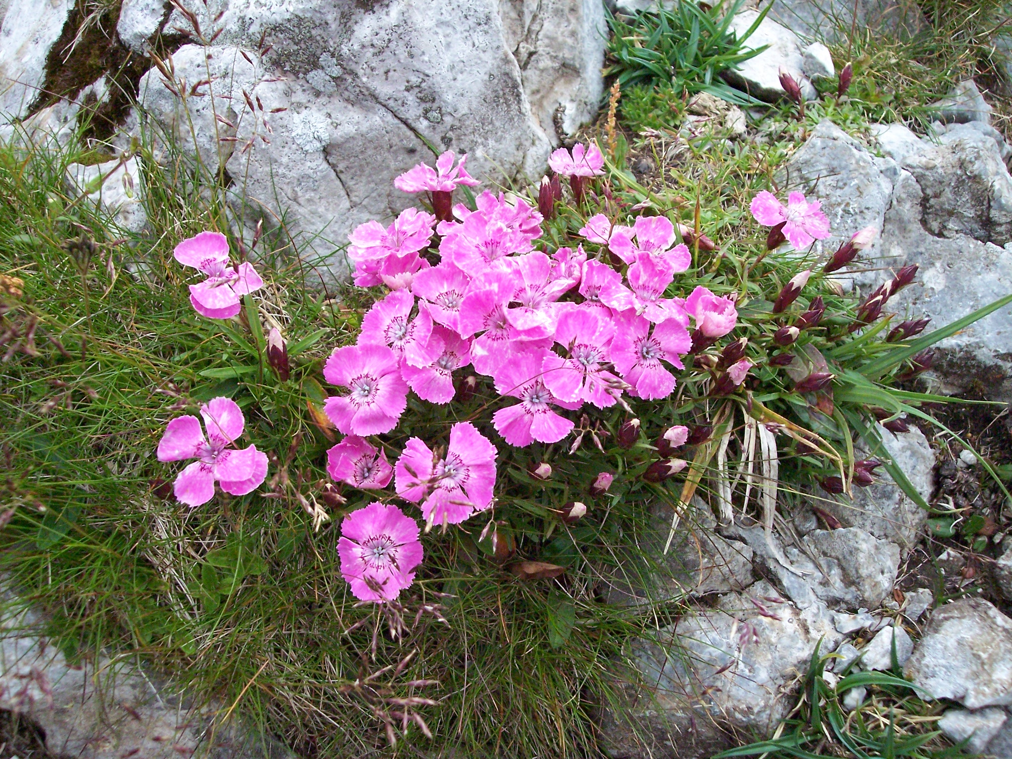 Dianthus alpinus on mountain Schneeberg (Austria)